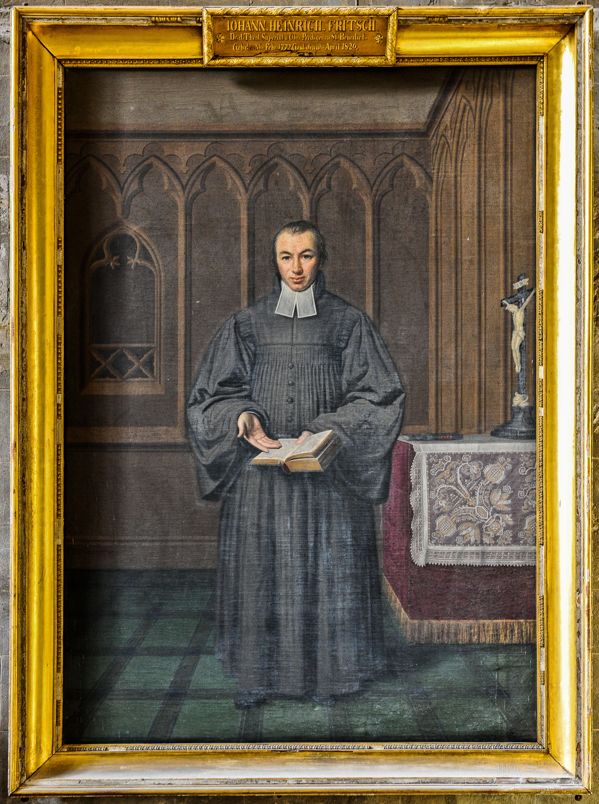 Dr. Johann Heinrich Fritsch, priest in Quedlinburg (painting in the market church in Quedlinburg, Germany)